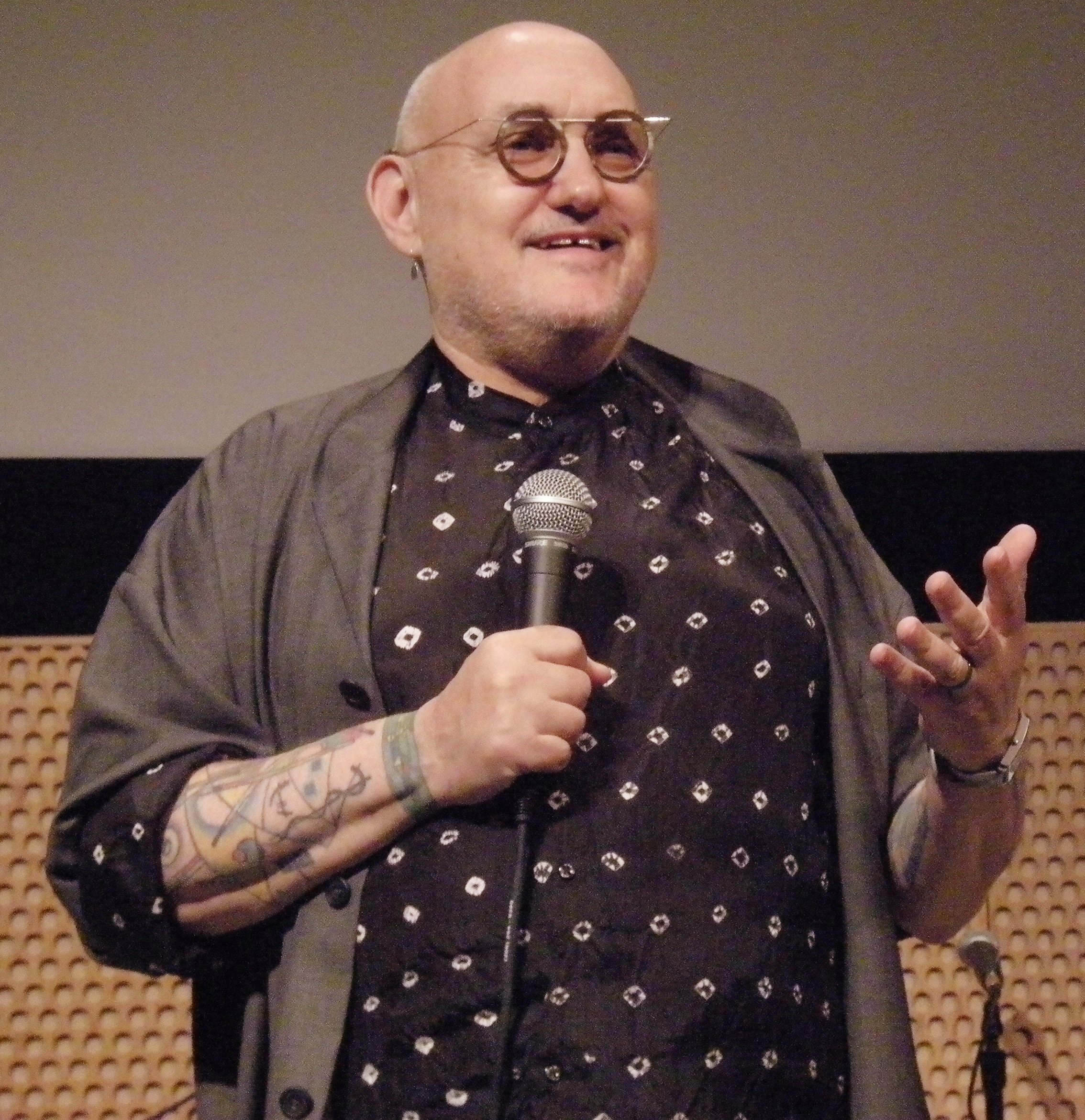 David Ritz addressing a plenary session of the 2008 Pop Conference, Experience Music Project, Seattle, Washington. His talk was called "Divided Byline: How a student of Leslie Fiedler and Colleague of Charles Keil Became the Ghostwriter for Everybody from Ray Charles to Cornel West."